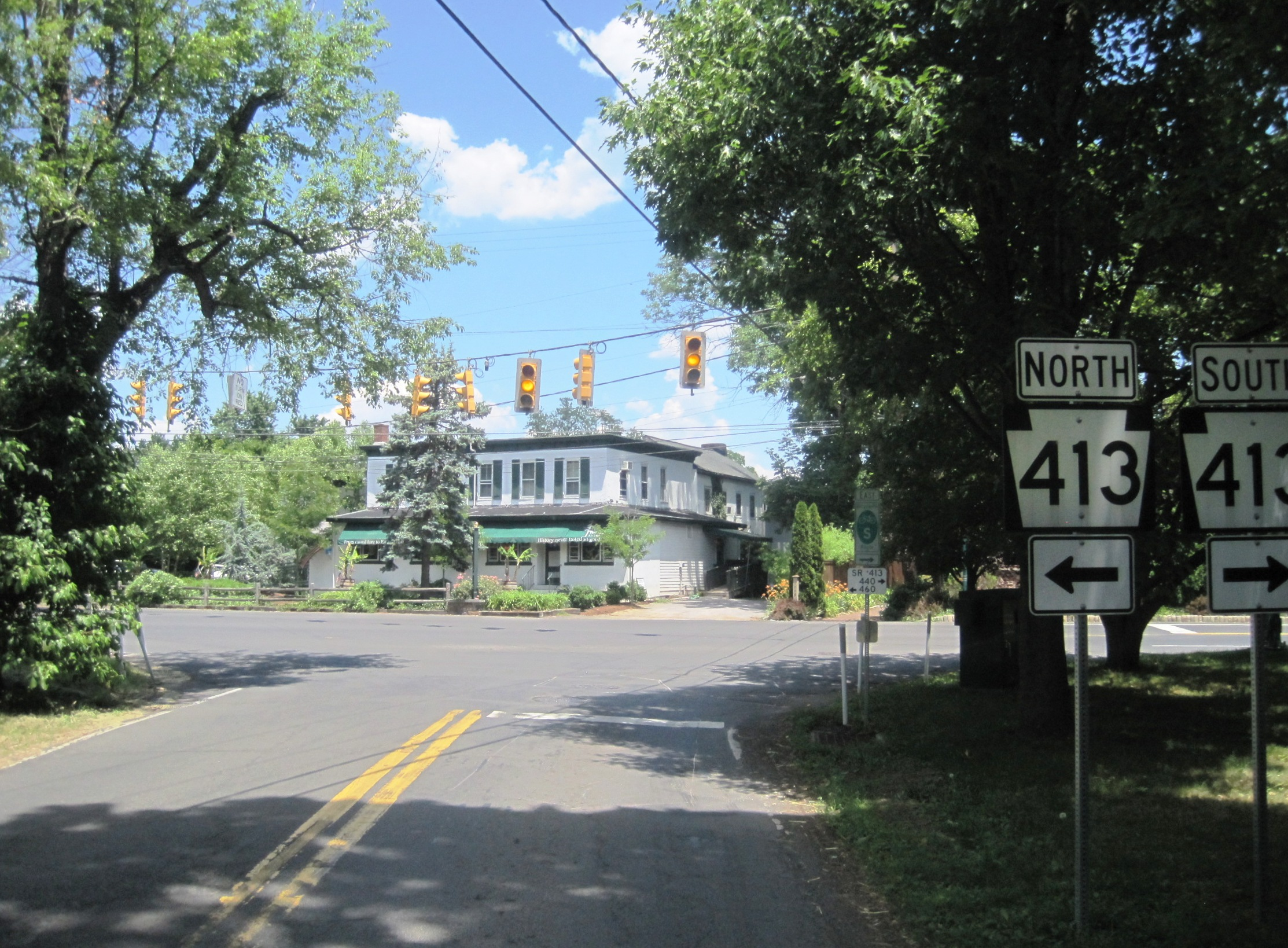 Photo showing Pineville, Pennsylvania, an unincorporated community on the border of Buckingham Township (left) and Wrightstown Township (right) in Bucks County. Photo was taken along northbound Township Line Road at Pennsylvania Route 413.